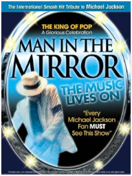 This is a poster for the show Man in the Mirror by theatre producer David King.